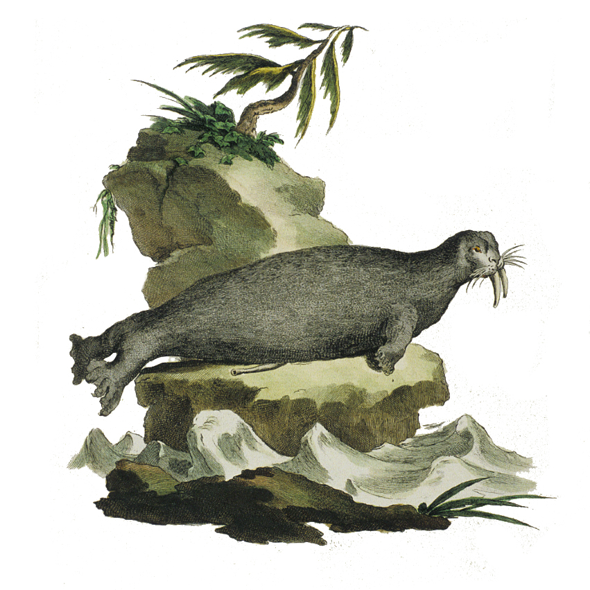 Atlantic Walrus engraving (from a stuffed male specimen, based on Georges Louis Leclerc's 1765 Histoire naturelle, générale et particulière vol. 10)